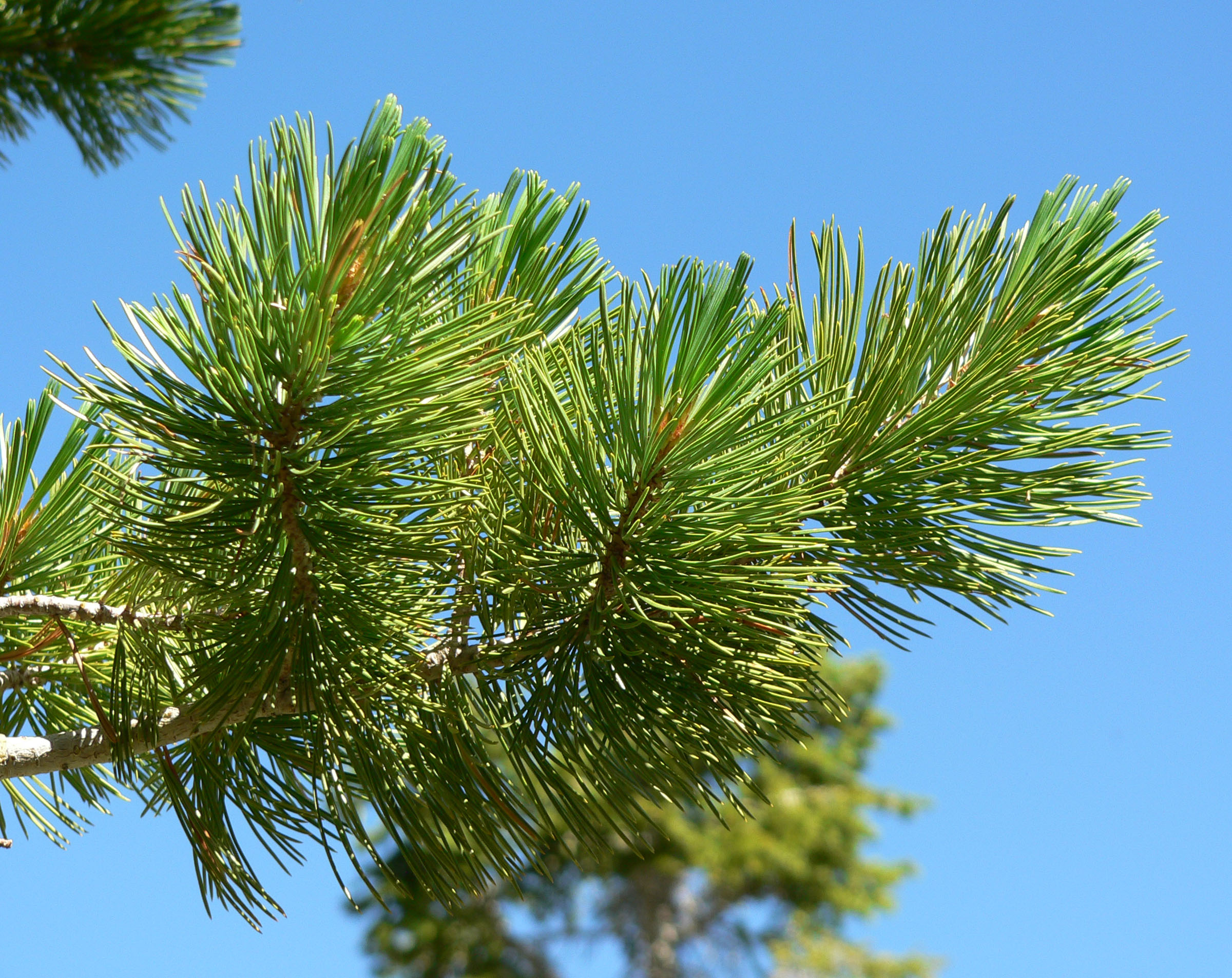 Pinus flexilis alongside the South Loop trail above the avalanche chutes, Spring Mountains, southern Nevada (elev. about 2800 m)